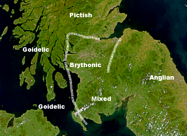 Author: Angus McLellan, source: Modified by me from NASA Visible Earth image If I hold any copyright in this work I hereby license it under the GFDL, otherwise, as the work of US Government agency, there is no copyright in this work.